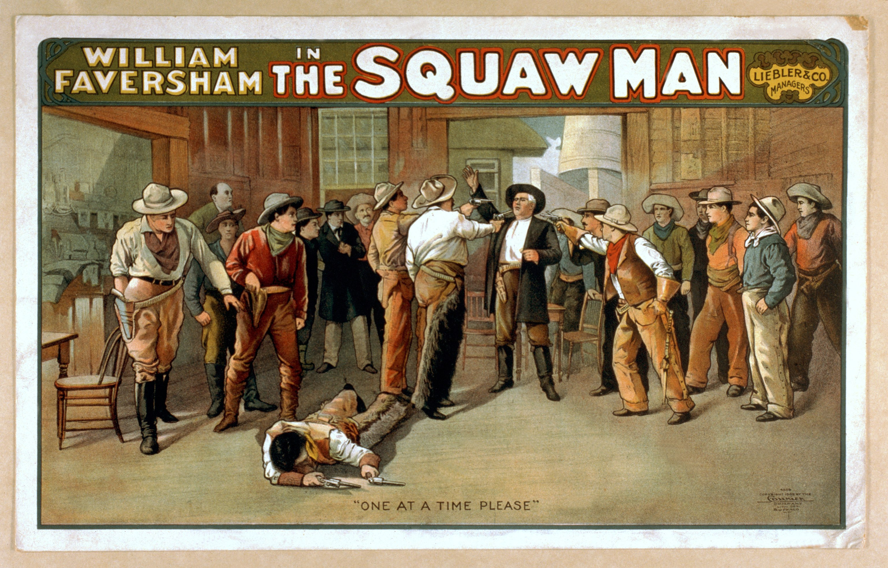 Title: William Faversham in The squaw man Abstract: 1 print : color lithograph ; sheet 35 x 55 cm. (poster format)